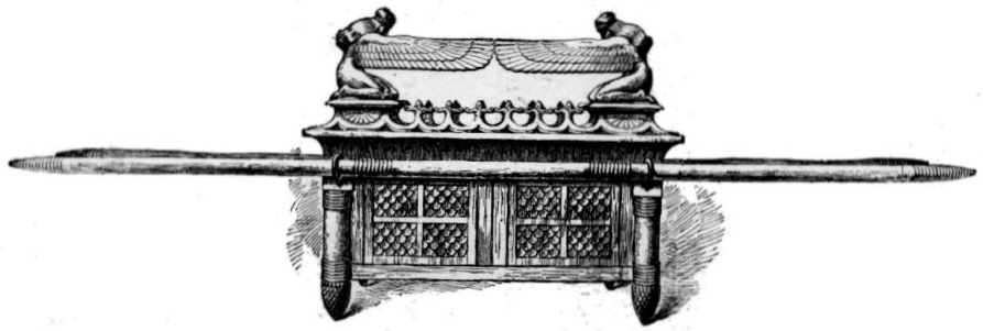 The Ark of the Covenant, by James Jacques Joseph Tissot (French, 1836-1902)